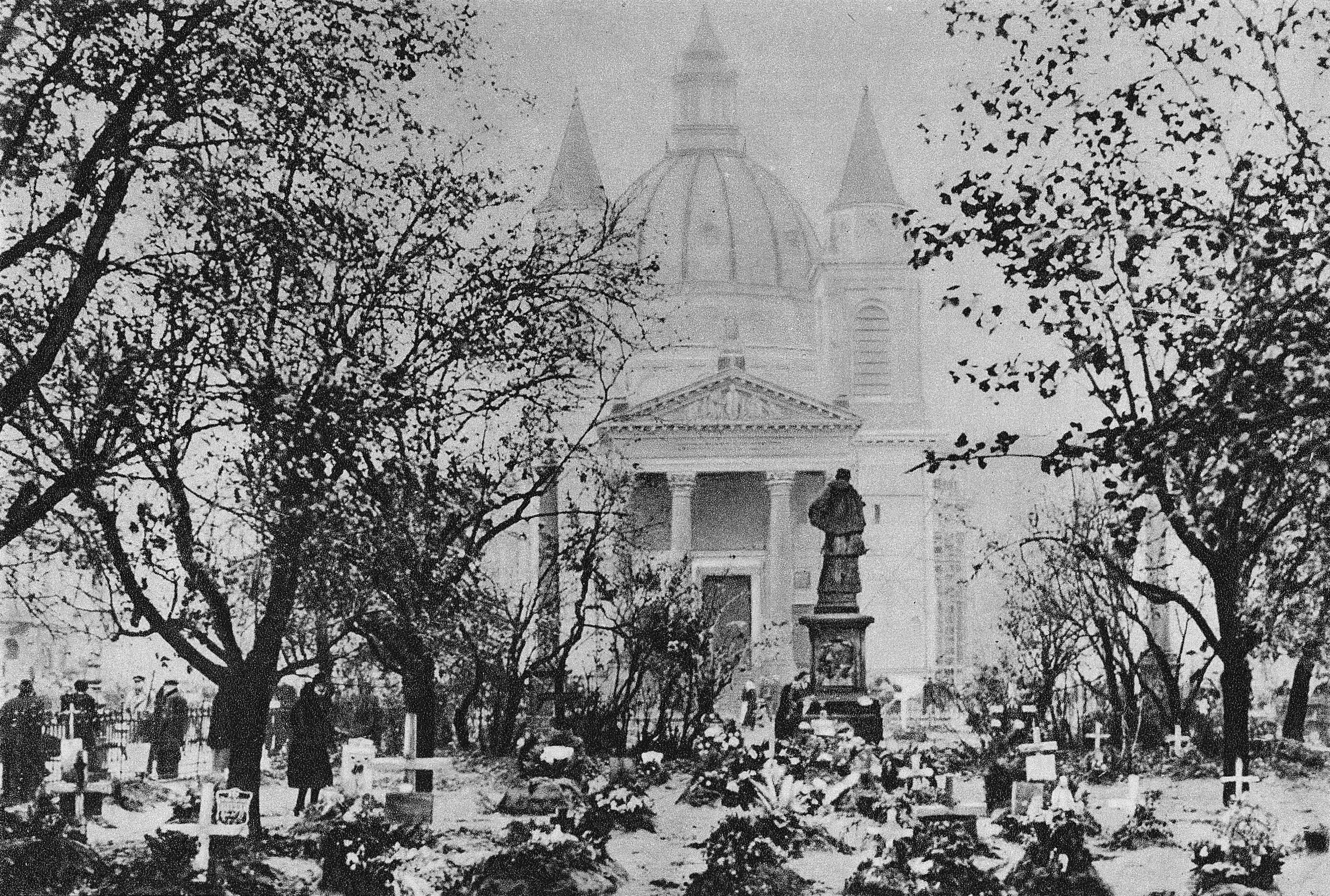 Graves of those who fell in September 1939. Three Crosses Square in Warsaw